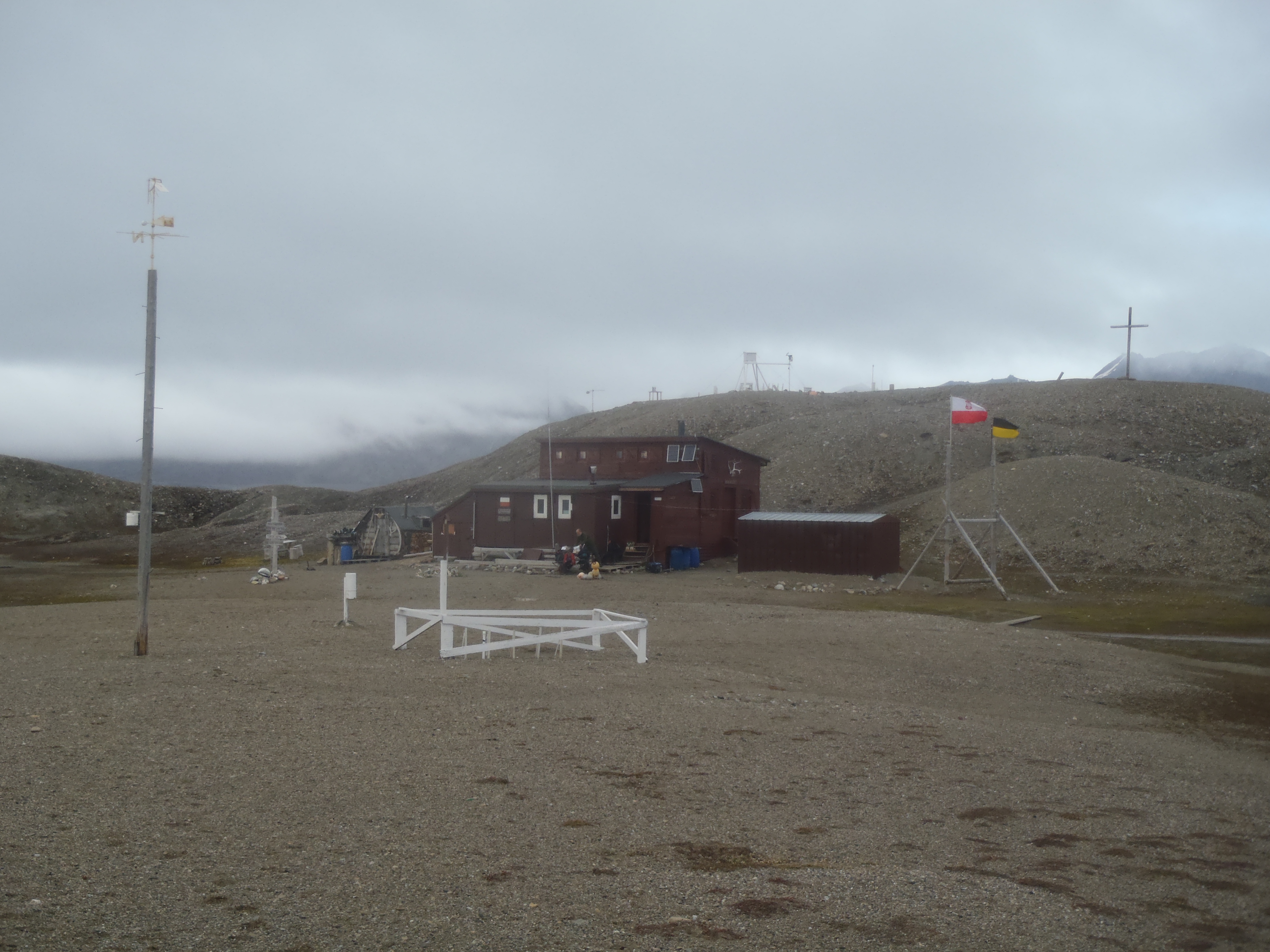 "Hahut", Nicholaus Copernicus University (Toruń, Poland) Polar Station, Kaffiøyra, Spitsbergen